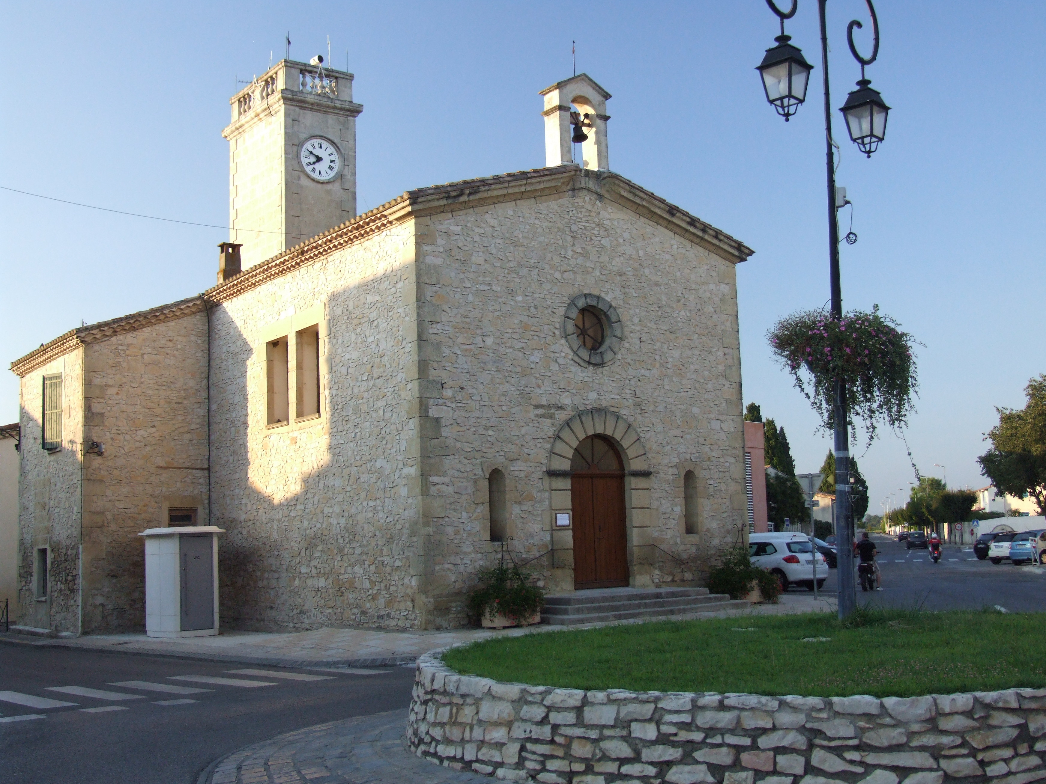 AAubord is a commune, situated on the D14 in the Petit Camargues, in the departement of Gard in the region Languedoc-Roussillon in southern France. Its post code is F30620 and INSEE 30020.